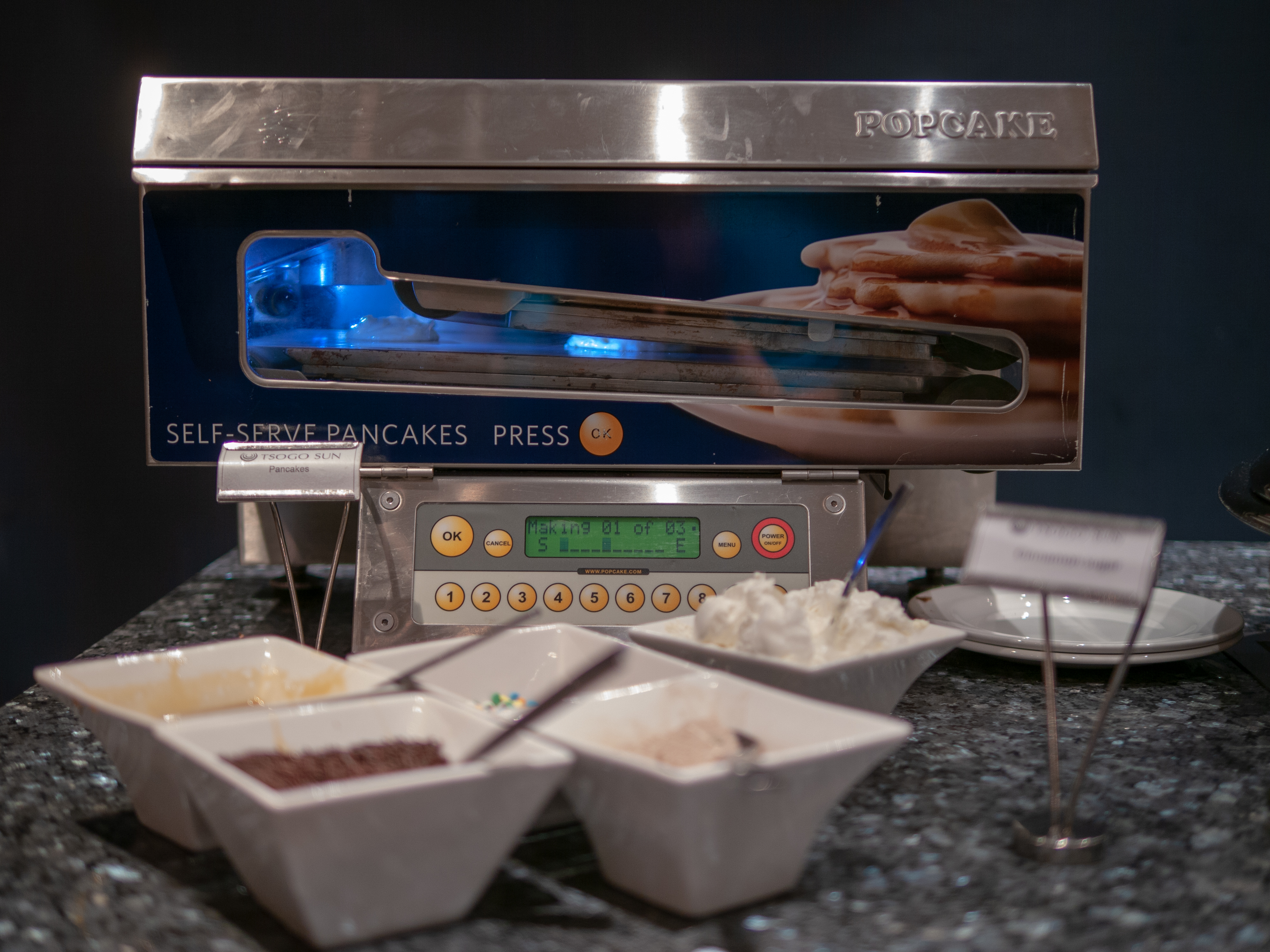 Wikimania 2018, Cape Town